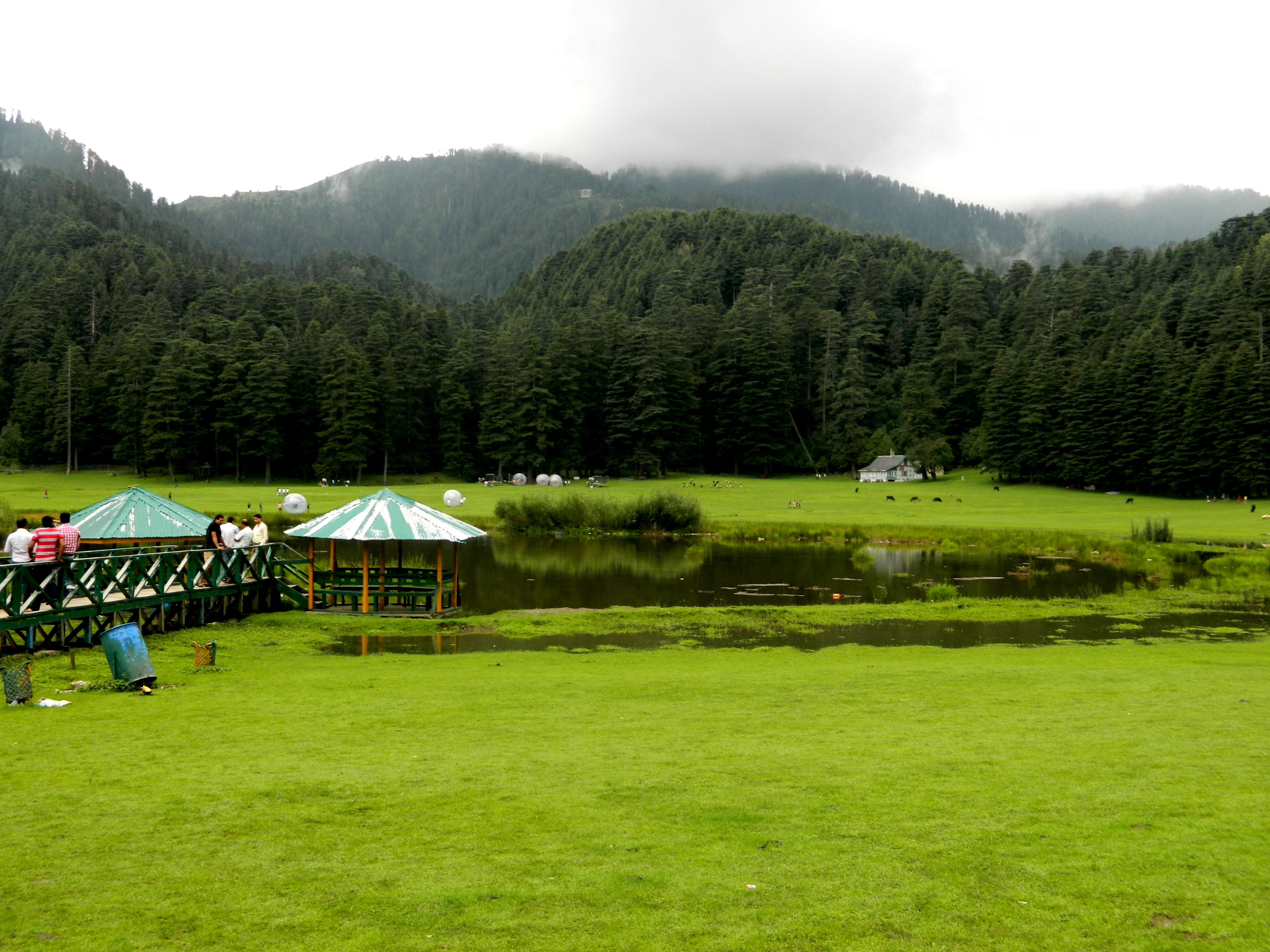 khajjiar during august